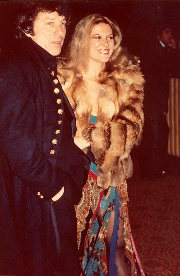 Greg Mullavy and wife Meredith MacRae at the premiere of Sylvester Stallone's movie F.I.S.T., April 1978 - Permission granted to copy, publish, broadcast or post but please credit "photo by Alan Light" if you can